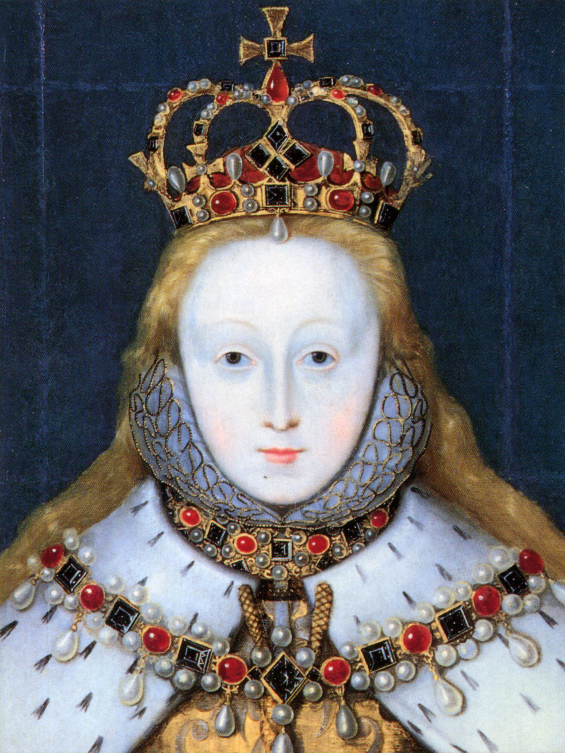 Queen Elizabeth I by unknown artist, circa 1600.